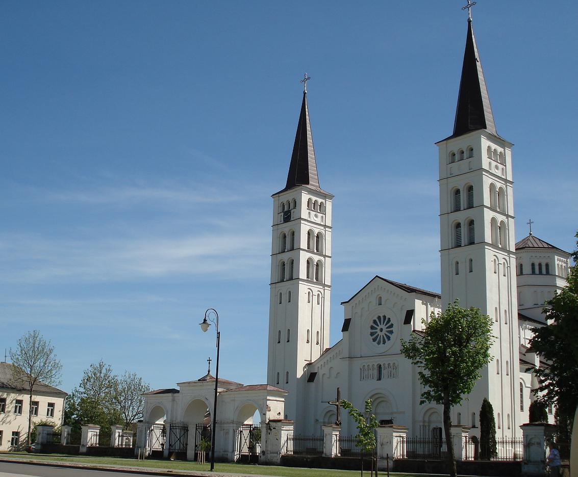 St. Michael church in Retavas (Lithuania). Built in 1873 AD.